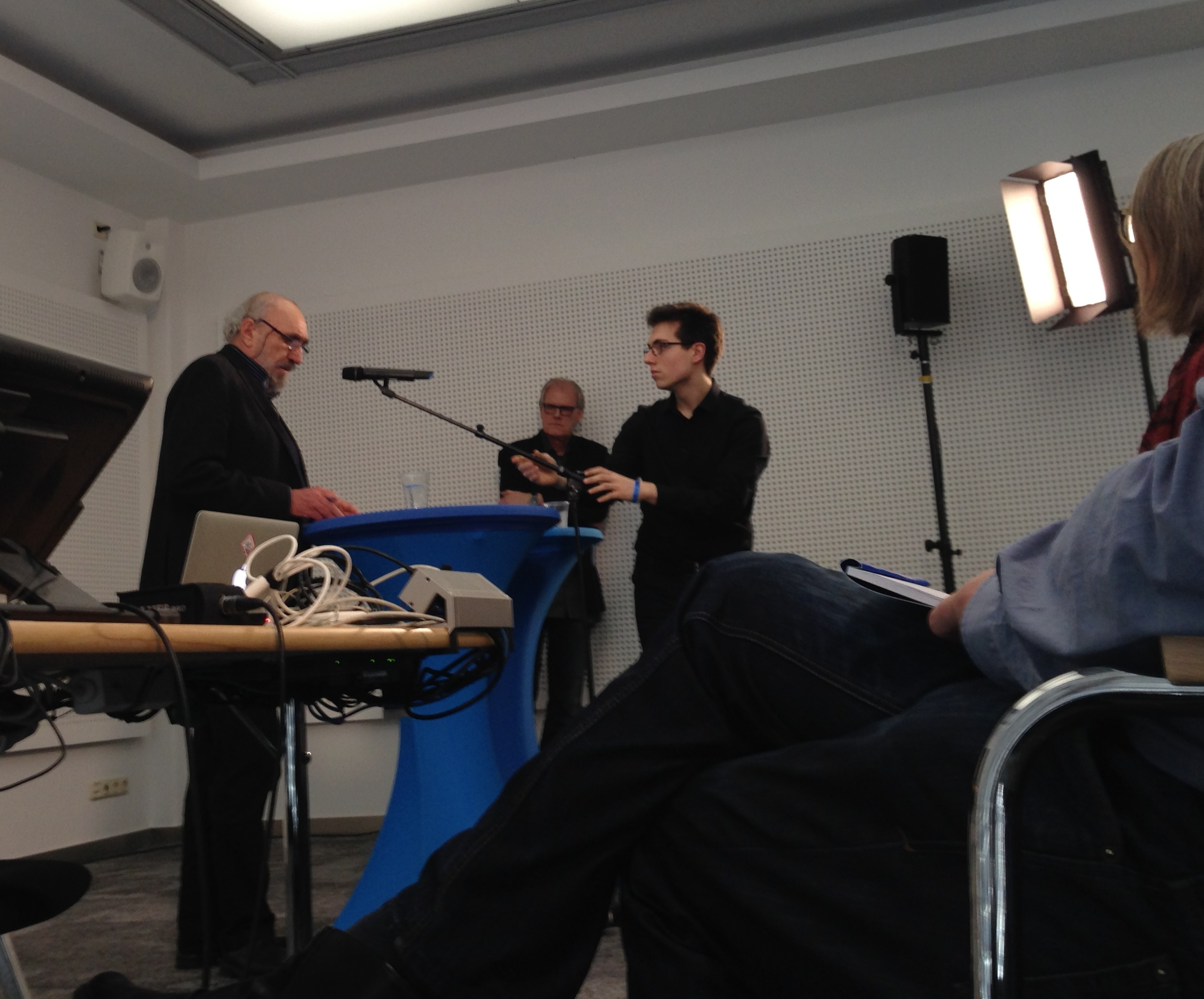 Author Georg Seeßlen at "Kölner Kongress 2017" at 2017-03-11 in Cologne